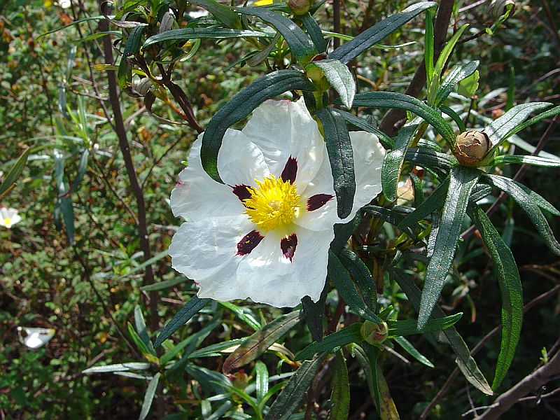 Cistus ladanifer subsp. ladanifer, in Almada, Portugal